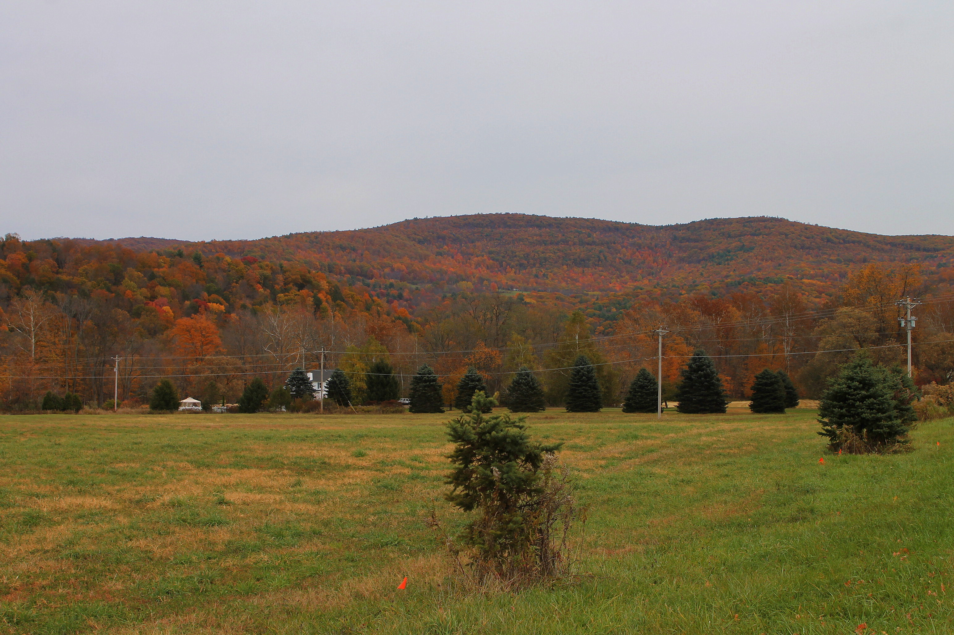 Miller Mountain, a mountain in Eaton Township Wyoming County, Pennsylvania